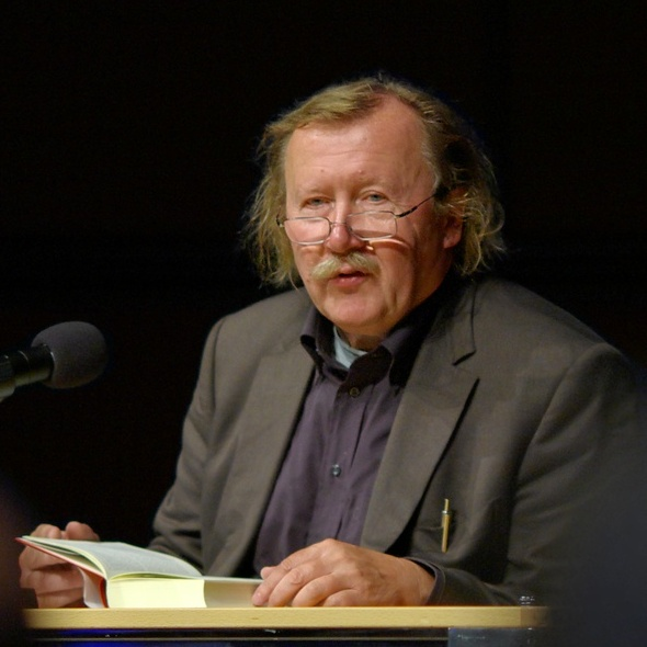 German philosopher Peter Sloterdijk reading from his book Du mußt dein Leben ändern.